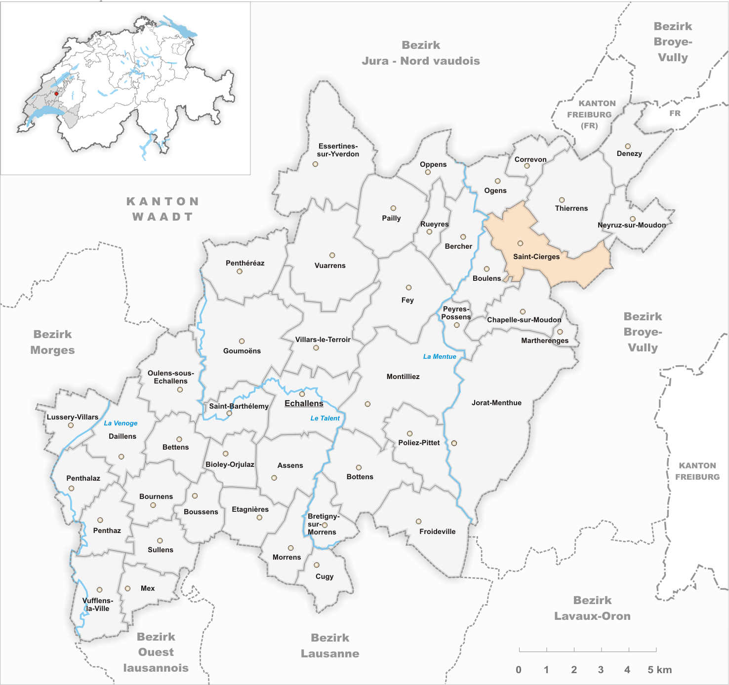 Municipality Saint-Cierges